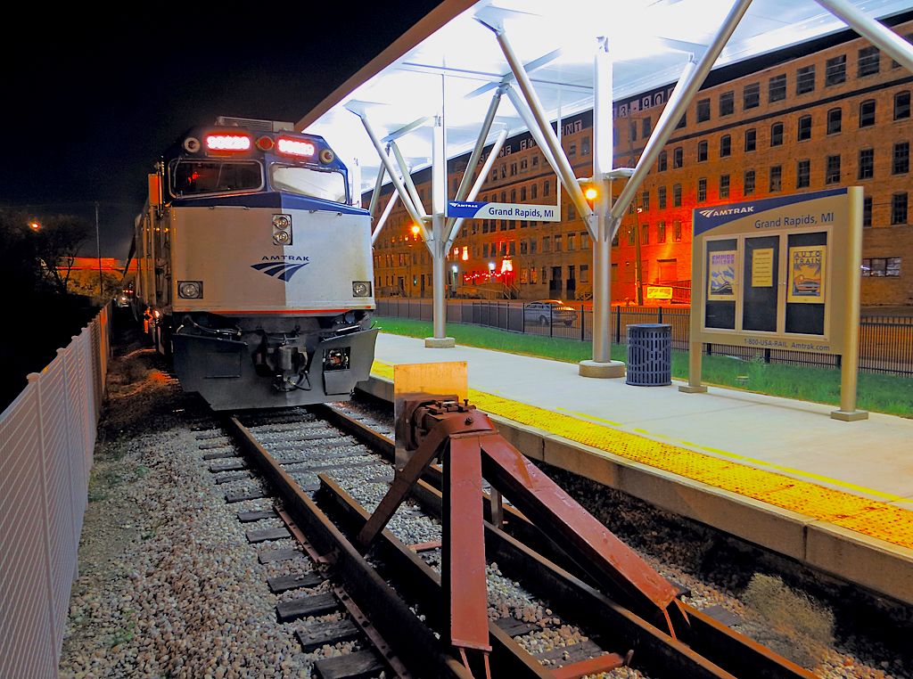 An Amtrak NPCU on the Pere Marquette at Grand Rapids station in November 2015